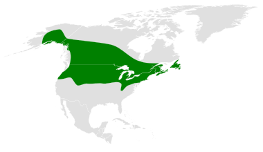 Poecile atricapillus distribution map, based on